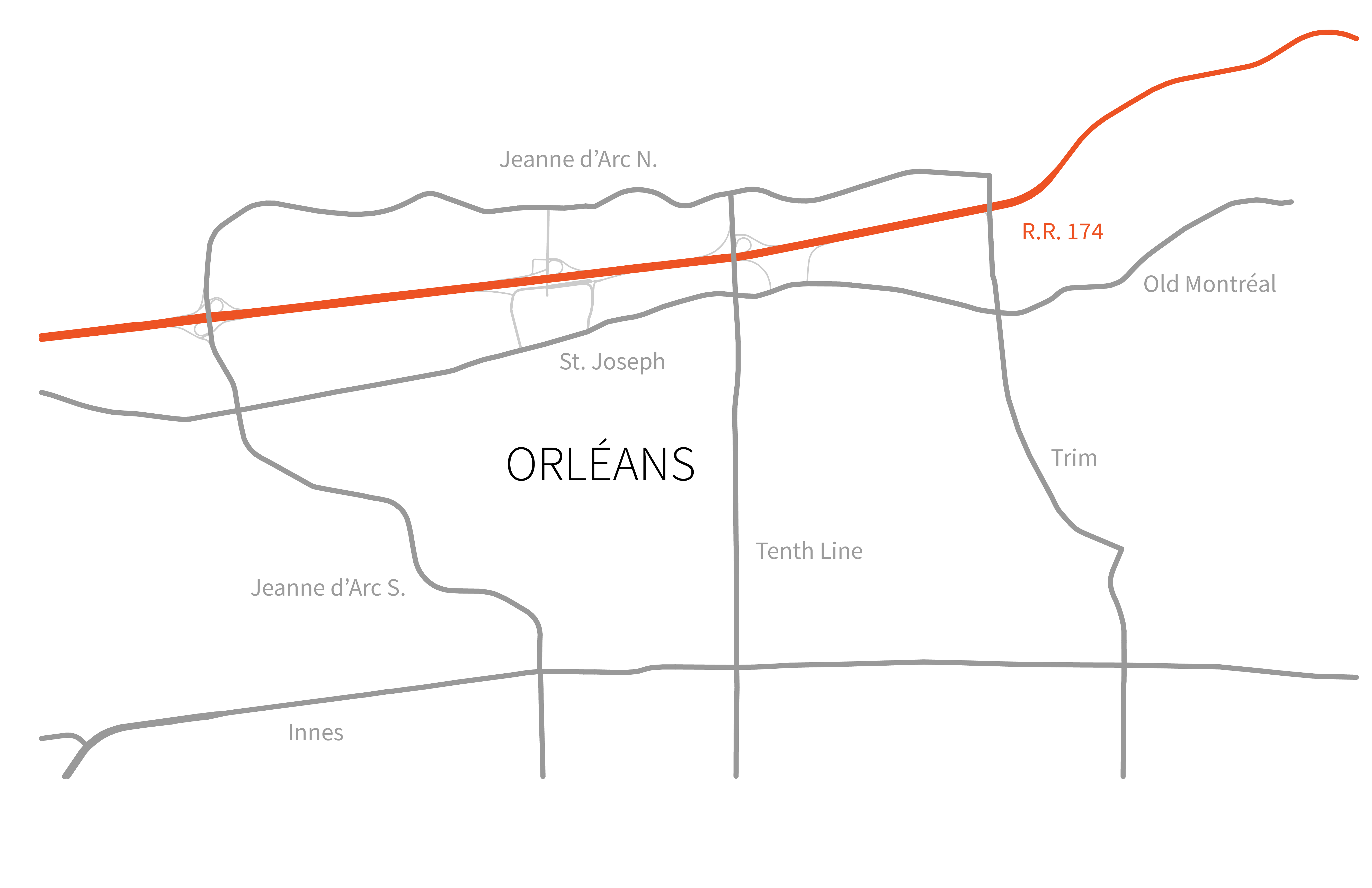 Map of Orléans, Ontario, with main road arteries shown.